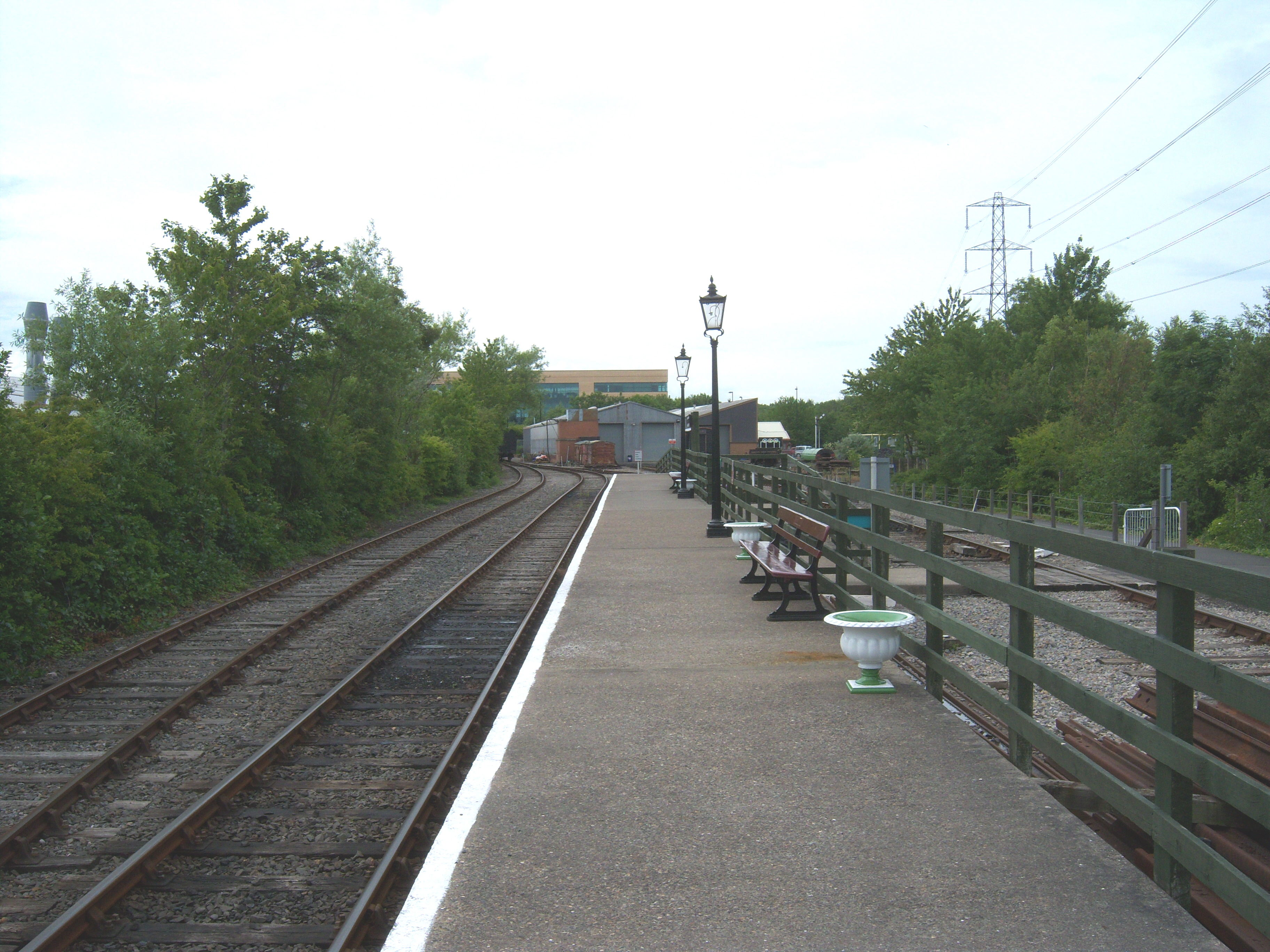 The view north along the Middle Engine Lane platform, on the North Tyneside Steam Railway.